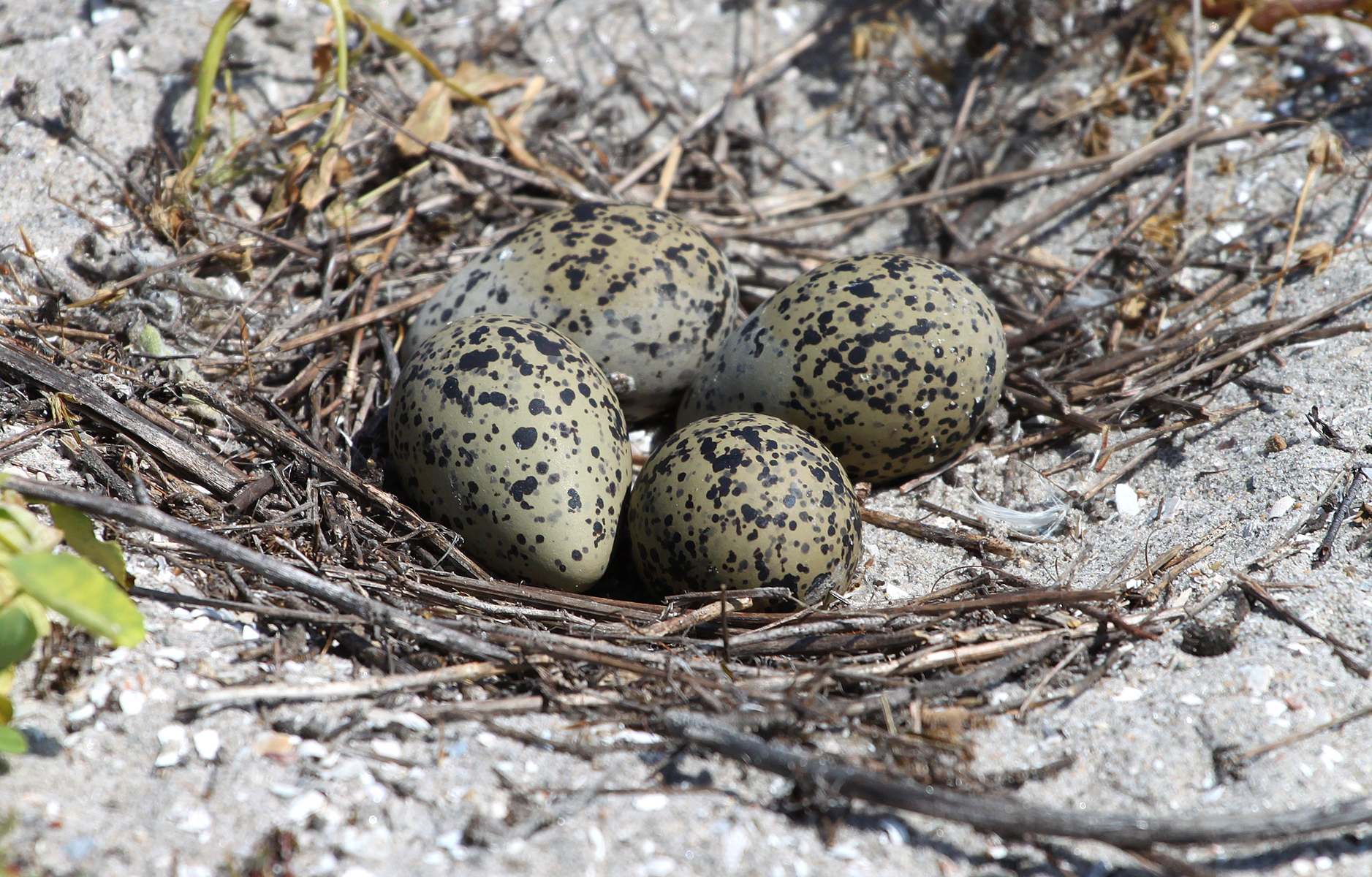 American Avocet nest containing four eggs, Least Tern Island, Upper Newport Bay, Newport Beach, CA